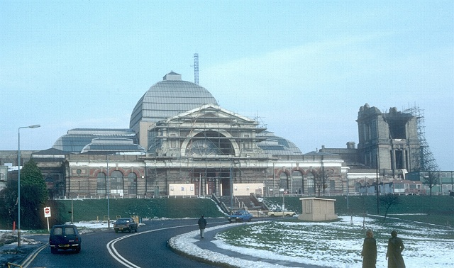 Alexandra Palace The first Alexandra Palace was opened in 1873 as a 'peoples palace' but was destroyed by fire soon afterwards. The second palace opened in 1875 and in 1980 this, too, was largely destroyed by fire. I believe there was some discussion as to whether to demolish it completely but it was rebuilt and reopened in 1988. This shows it in 1982 with scaffolding supporting the walls. Keywords: people